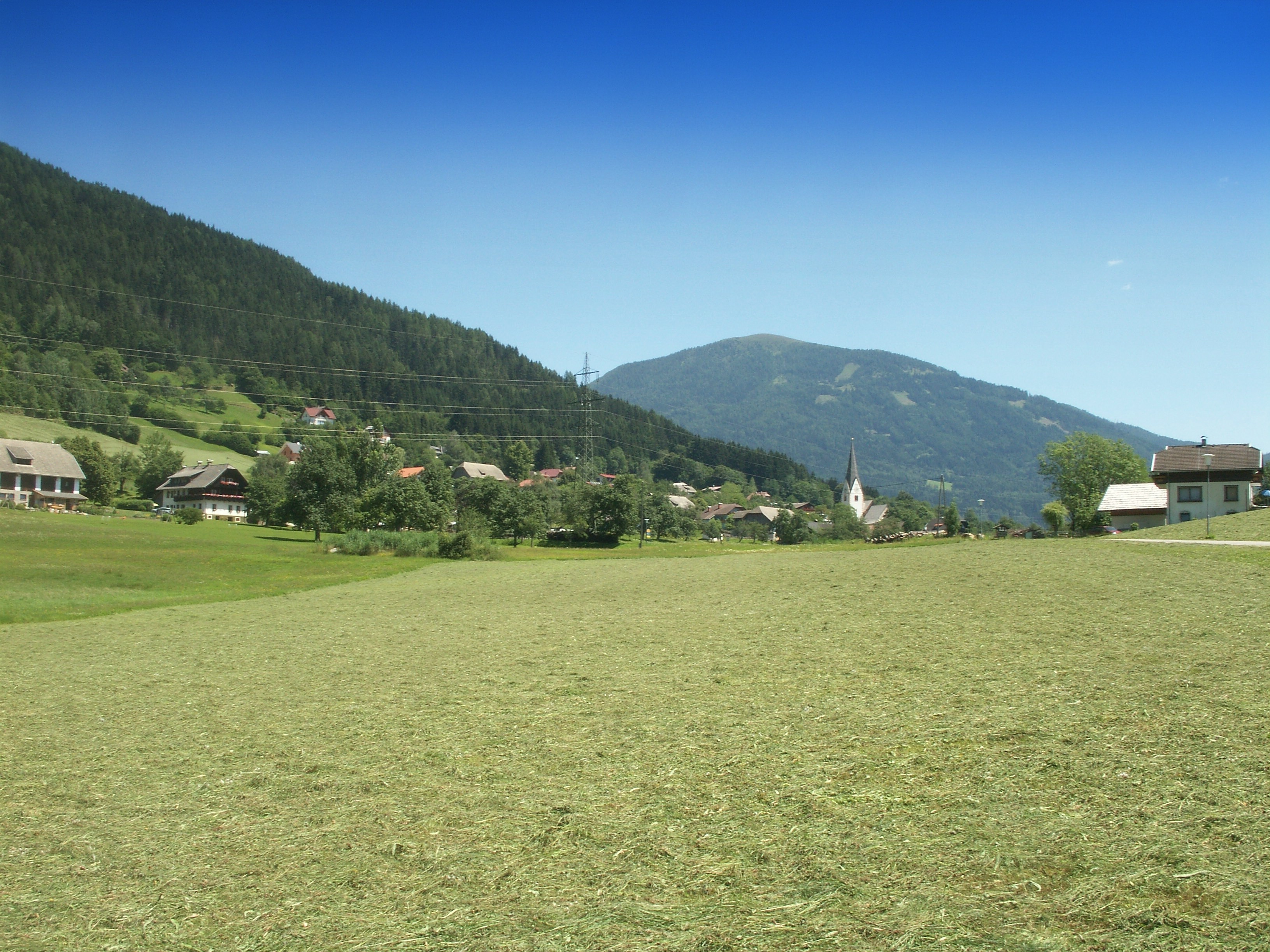 Matzelsdorf, a village of the community Millstatt (Millstätter See), district Spittal an der Drau in Carinthia / Austria / EU.